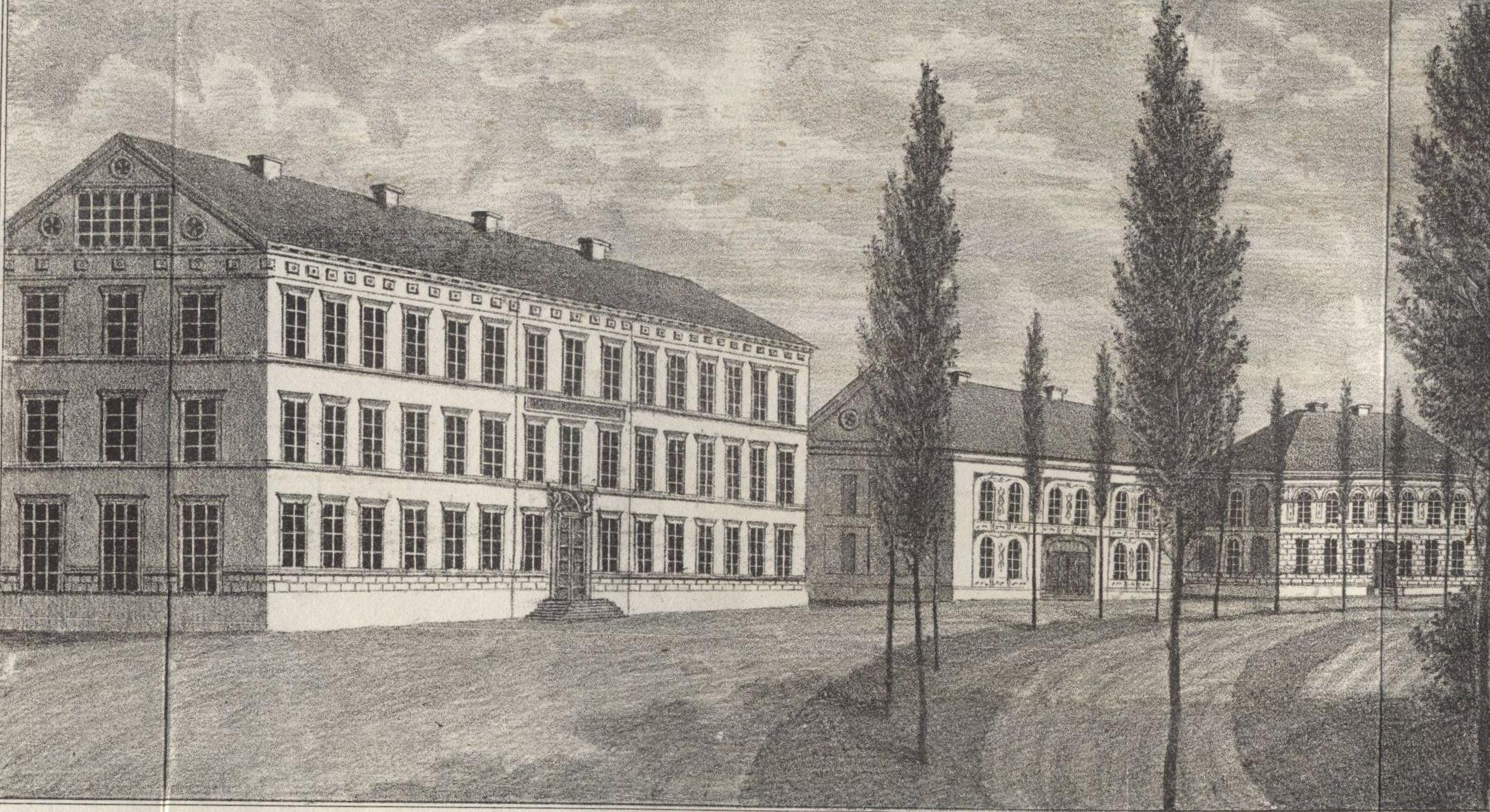 Ansicht und Grundriß des Königl. Pädagogiums zu Putbus", View of Paedagogium Putbus in 1839, Lithography by C. Röpke, scanned from a collection of essays in honor of deFriedrich Koch (Schulrat) collected by Ernst Heinrich Zober, sold in 2012 by Stadtarchiv Stralsund